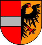 Coat of arms of Wallendorf)